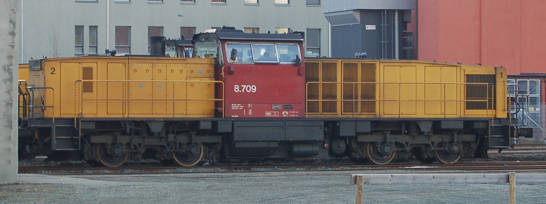 CargoNet Di 8 at Marienborg in Trondheim, Norway